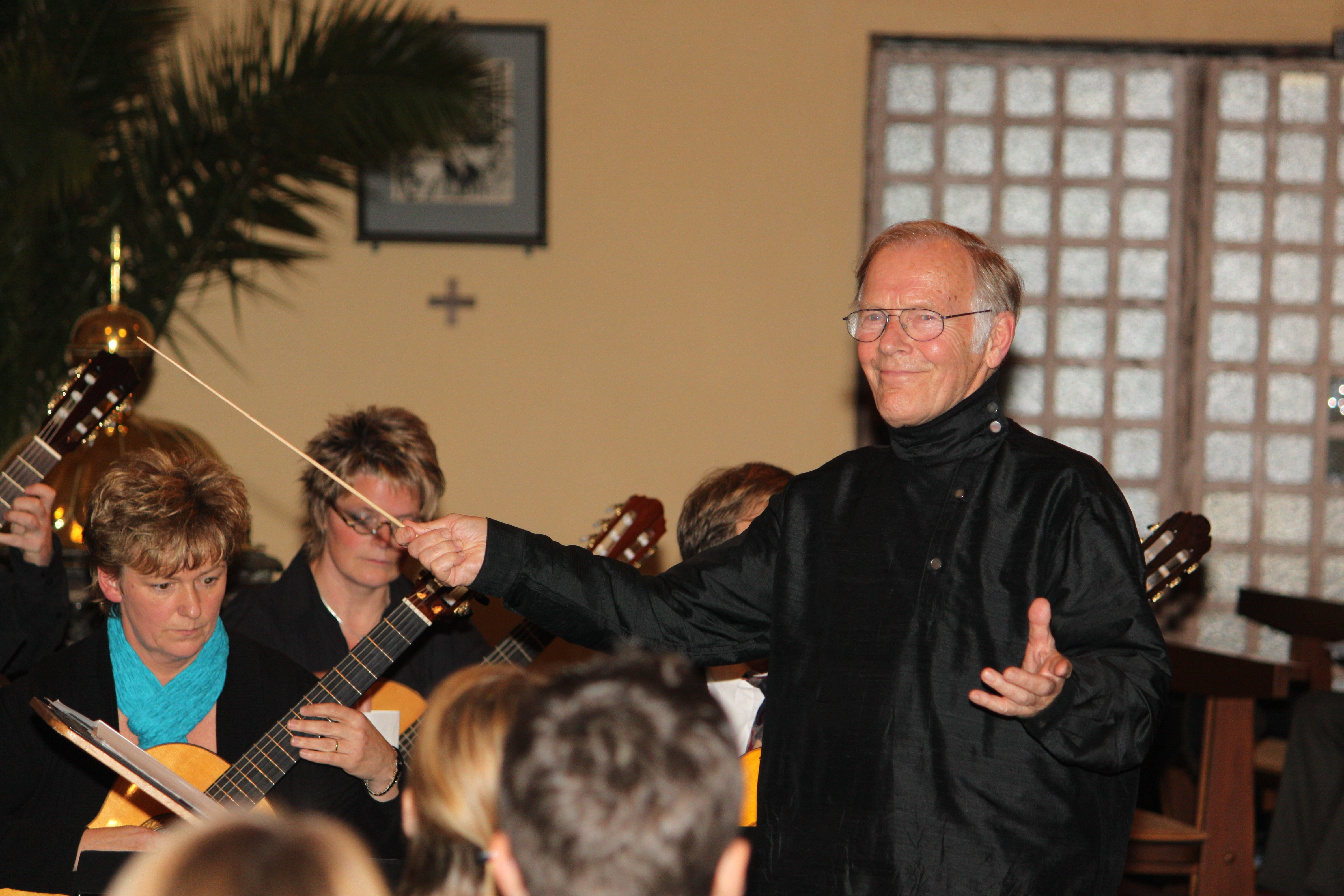 Hartmut Klug conducts the mandolin orchestra of Rhineland-Palatinate